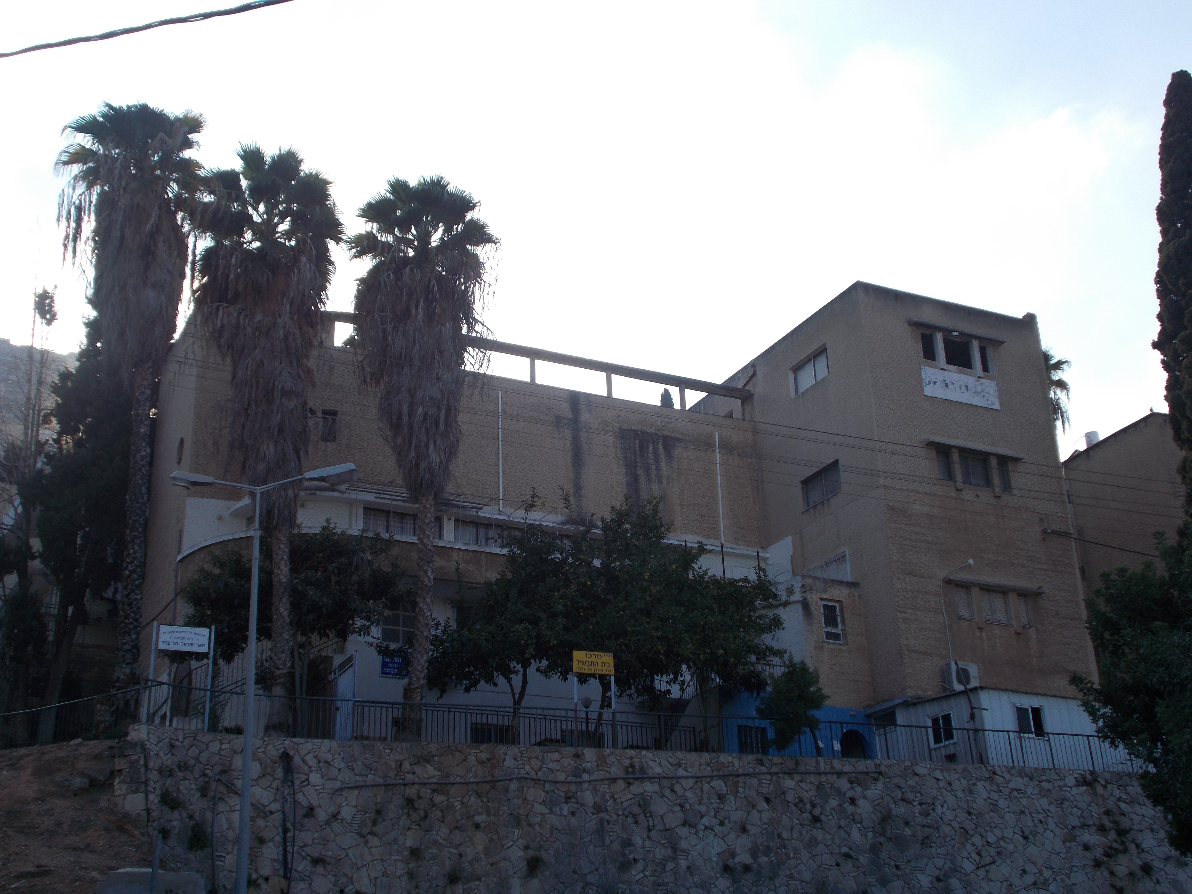 Tel Amal community center in HaYarden street No.52, Tel Amal, Haifa - Front view.